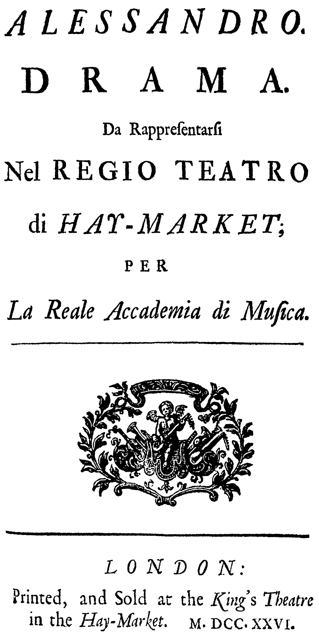 Georg Friedrich Händel - Alessandro - title page of the libretto - London 1726